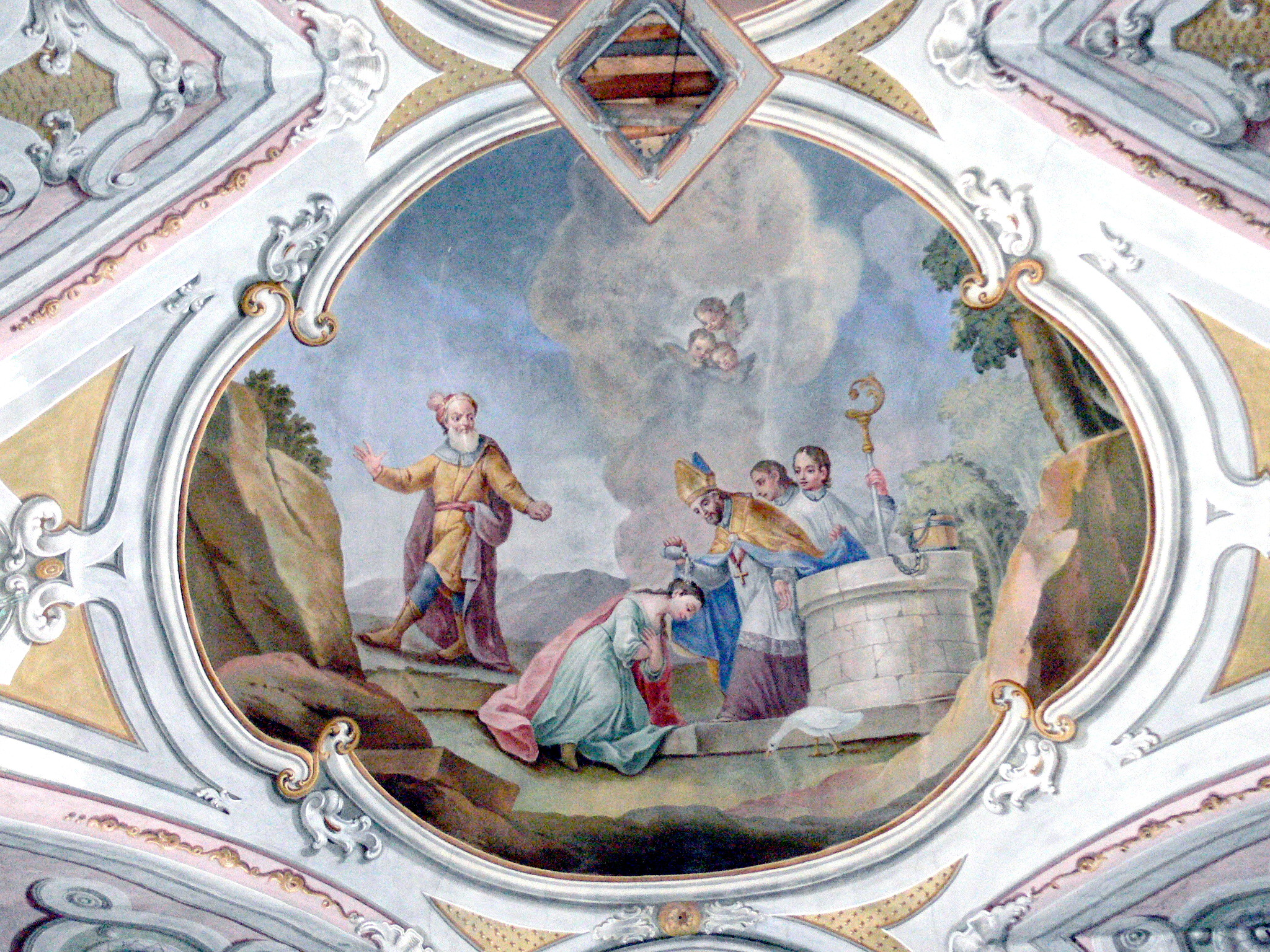 Saint Martin baptizes his mother while his pagan father is going awaylabel QS:Len,"Saint Martin baptizes his mother while his pagan father is going away" label QS:Lde,"St. Martin tauft seine Mutter, während sich sein heidnischer Vater abwendet."